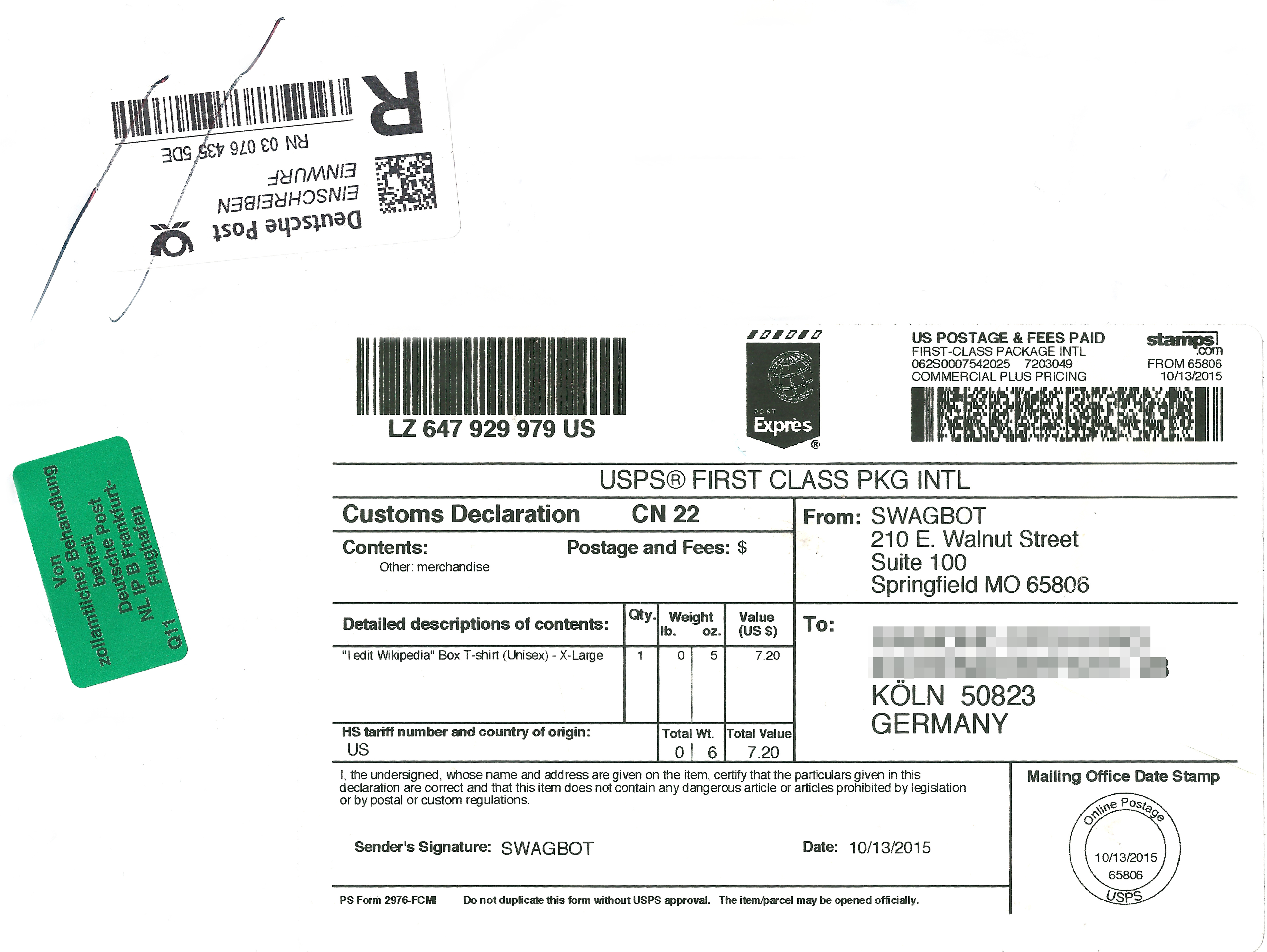 USPS First Class Pkg Intl USA-D with Customs Declaration CN 22. Online postage via . Delivered in Germany as registered mail (Einwurf Einschreiben)